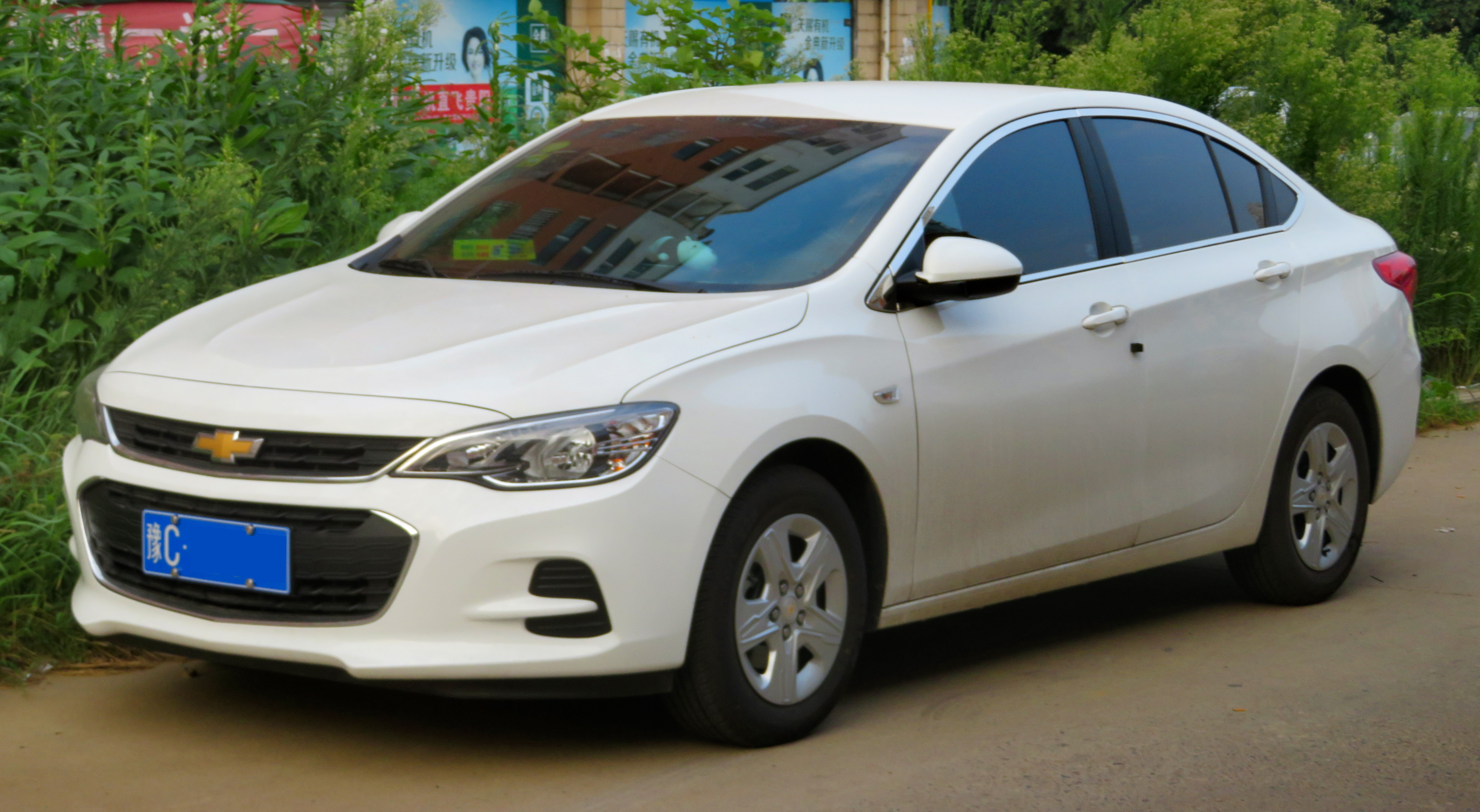 A 2018 SAIC-GM-Chevrolet Cavalier photographed in Xigong District, Luoyang, Henan province, China